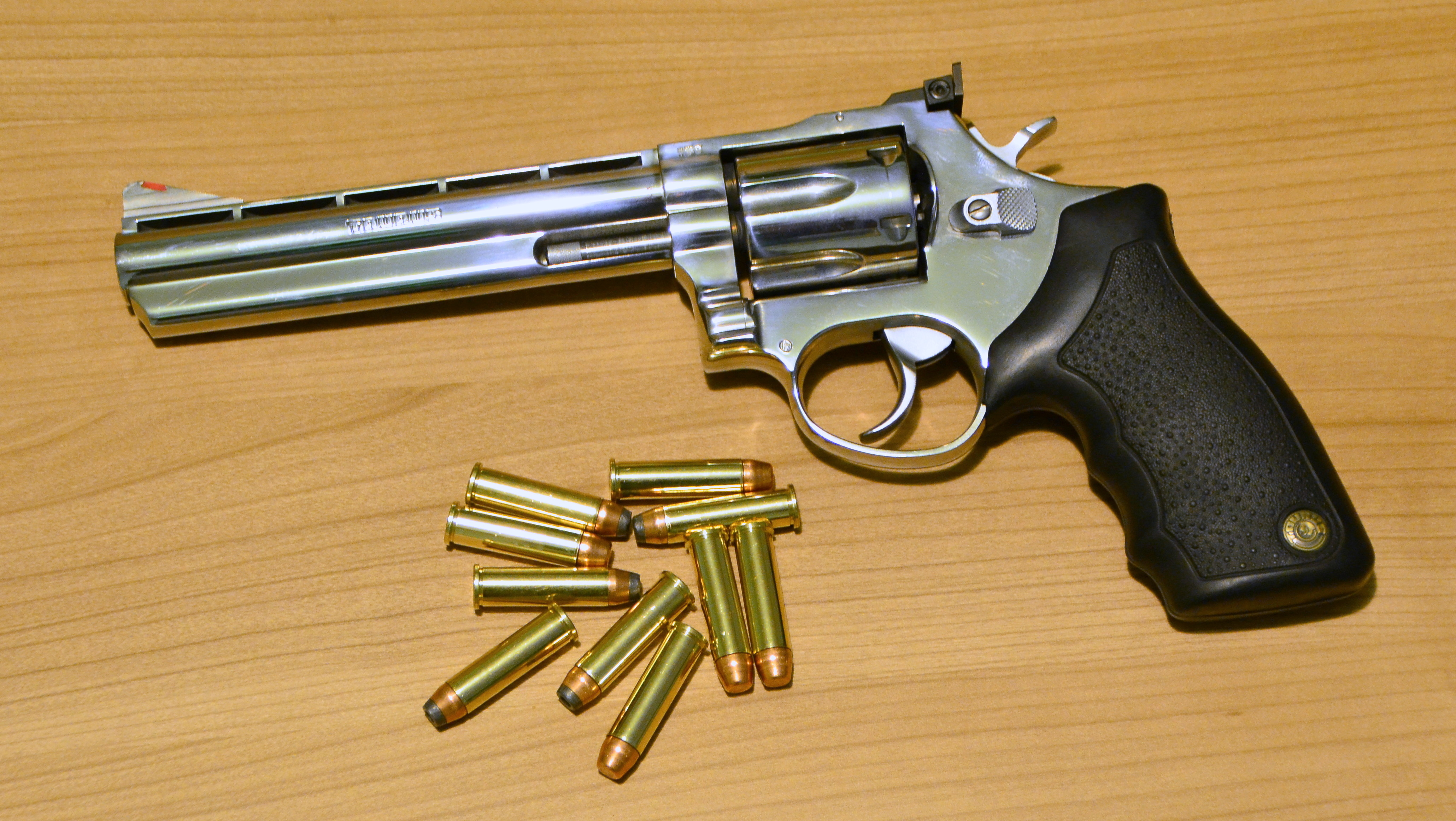 Taurus large frame revolver model 689 packs a 6 rounds of .357 Magnum firepower, the barrel lenght is 6 inch.